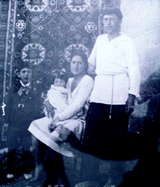 Jabbarly with his family